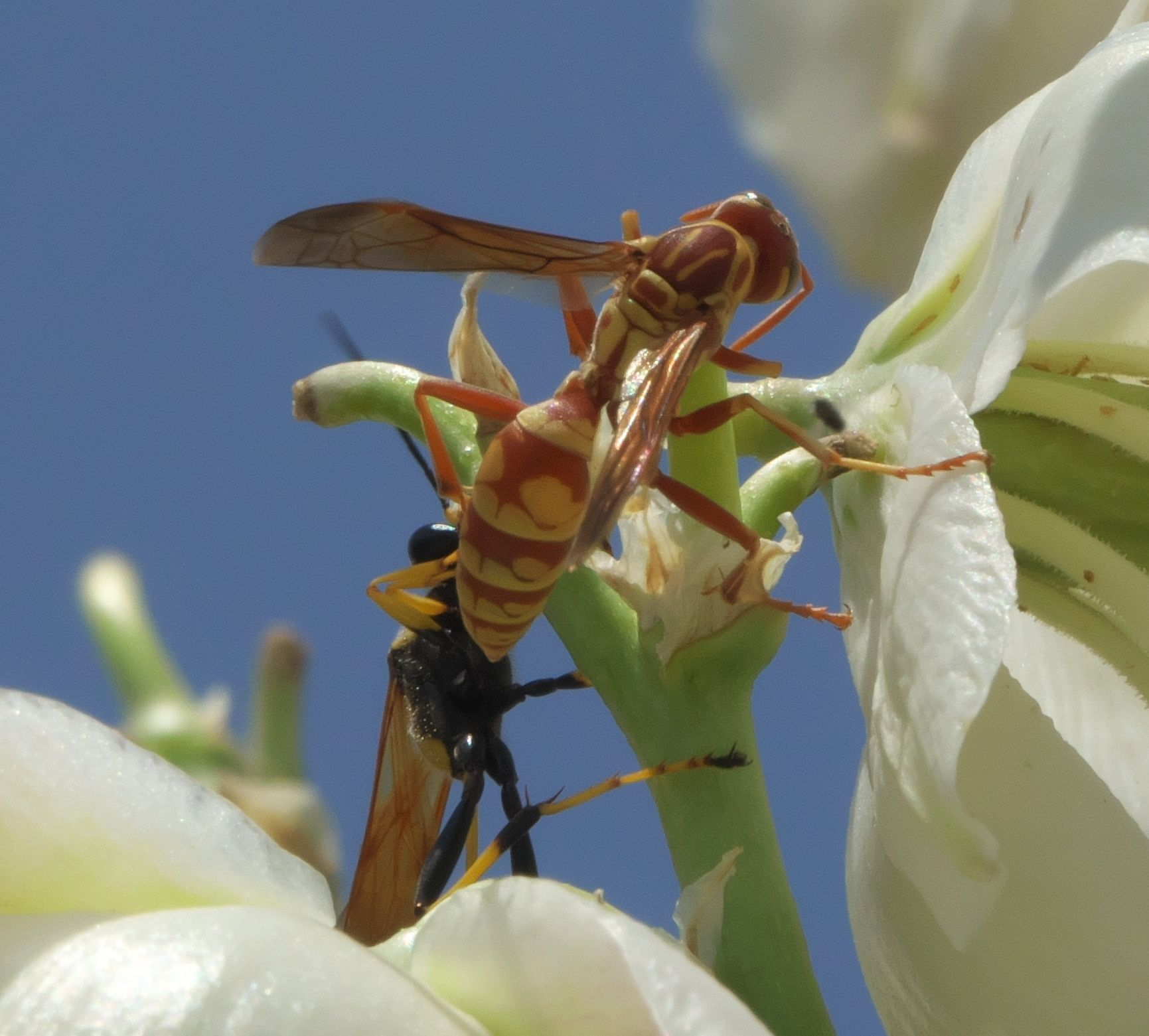 Polistes apachus - an adult feeding with another wasp in situ in Eddy County, New Mexico on 8 Jun 2018, photographed by Robert Webster. Note two large yellow patches on the second tergite.